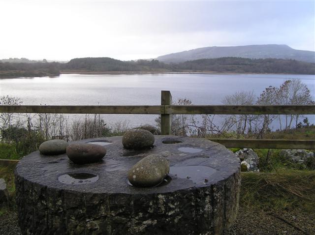 Lough Macnean Upper Pictured looking west from Thornhill